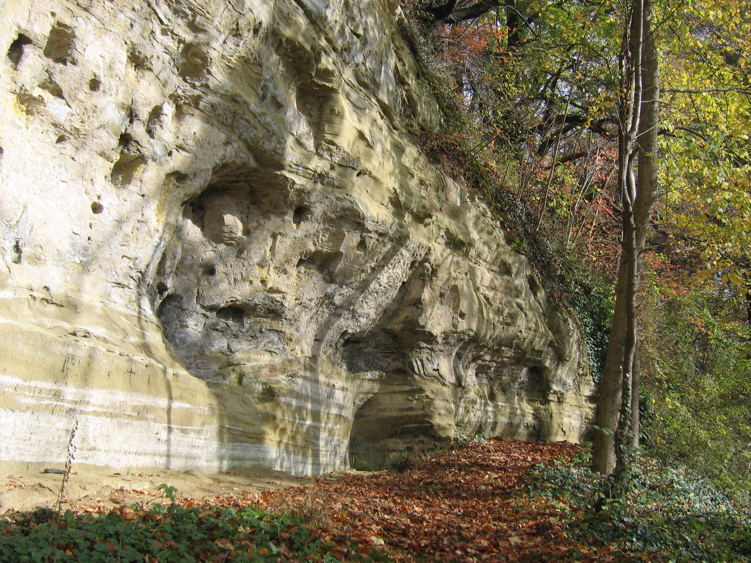 Germany - Baden-Württemberg - Bodenseekreis - Frickingen/Owingen/Überlingen: nature reserve "Aachtobel"